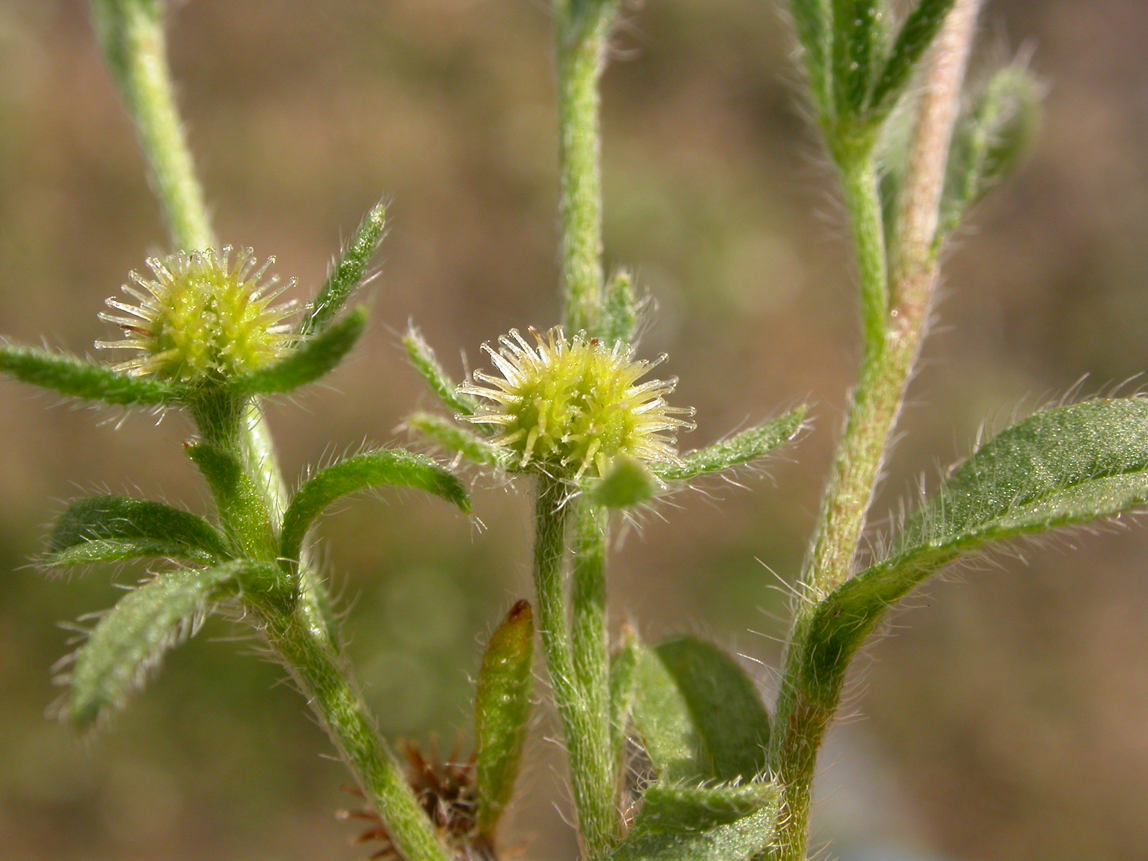 The margins of the outer surface of the nutlets are lined with two rows of barb-tipped spines.